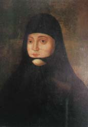 Solomonia Saburova, the first wife of Grand Prince Vasili III, as nun in Suzdal Intercession Monastery